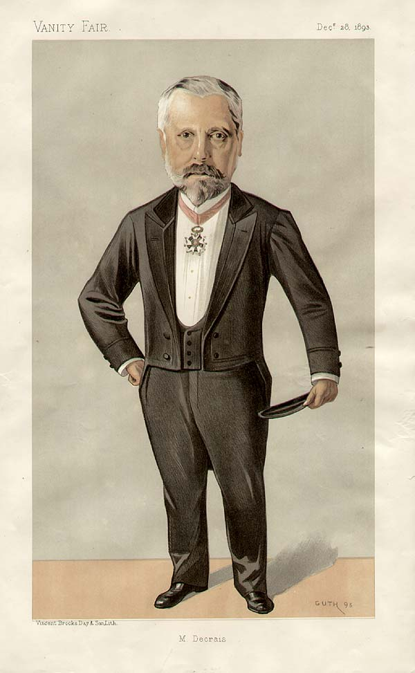 Caricature of Pierre Louis Albert Decrais. French Ambassador to the United Kingdom.